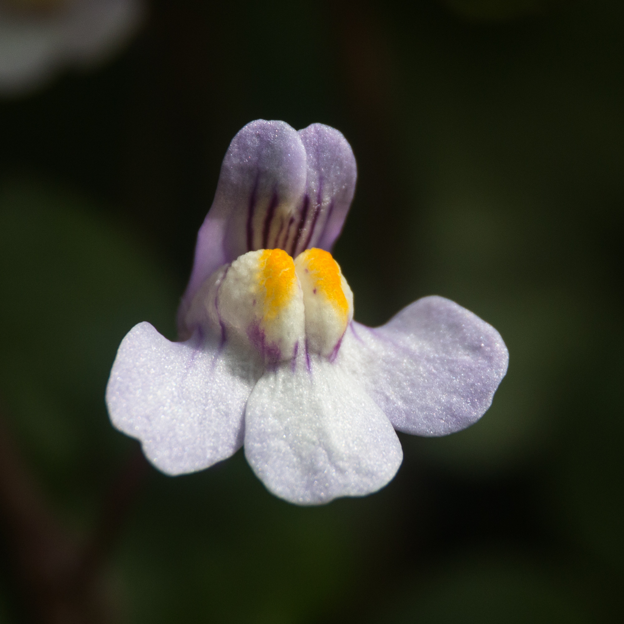 Flower of an ivy-leaved toadflax.